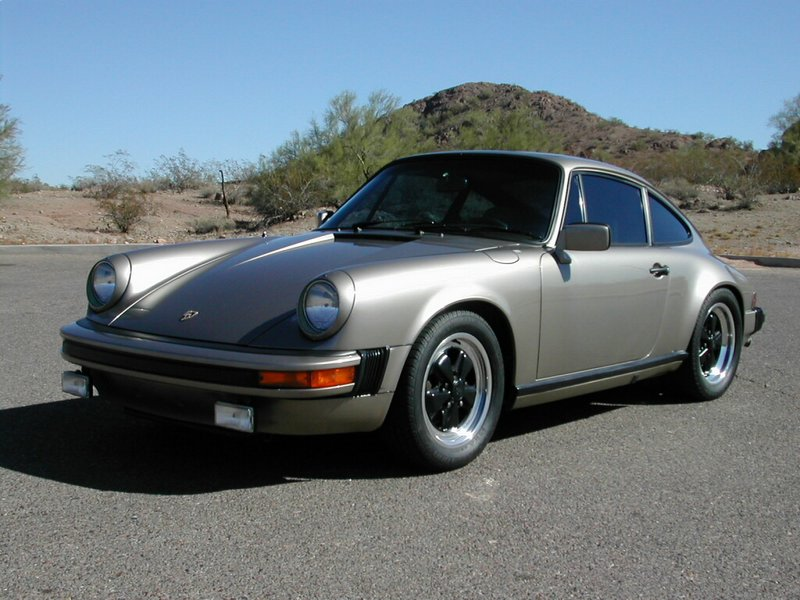 Summary My photo